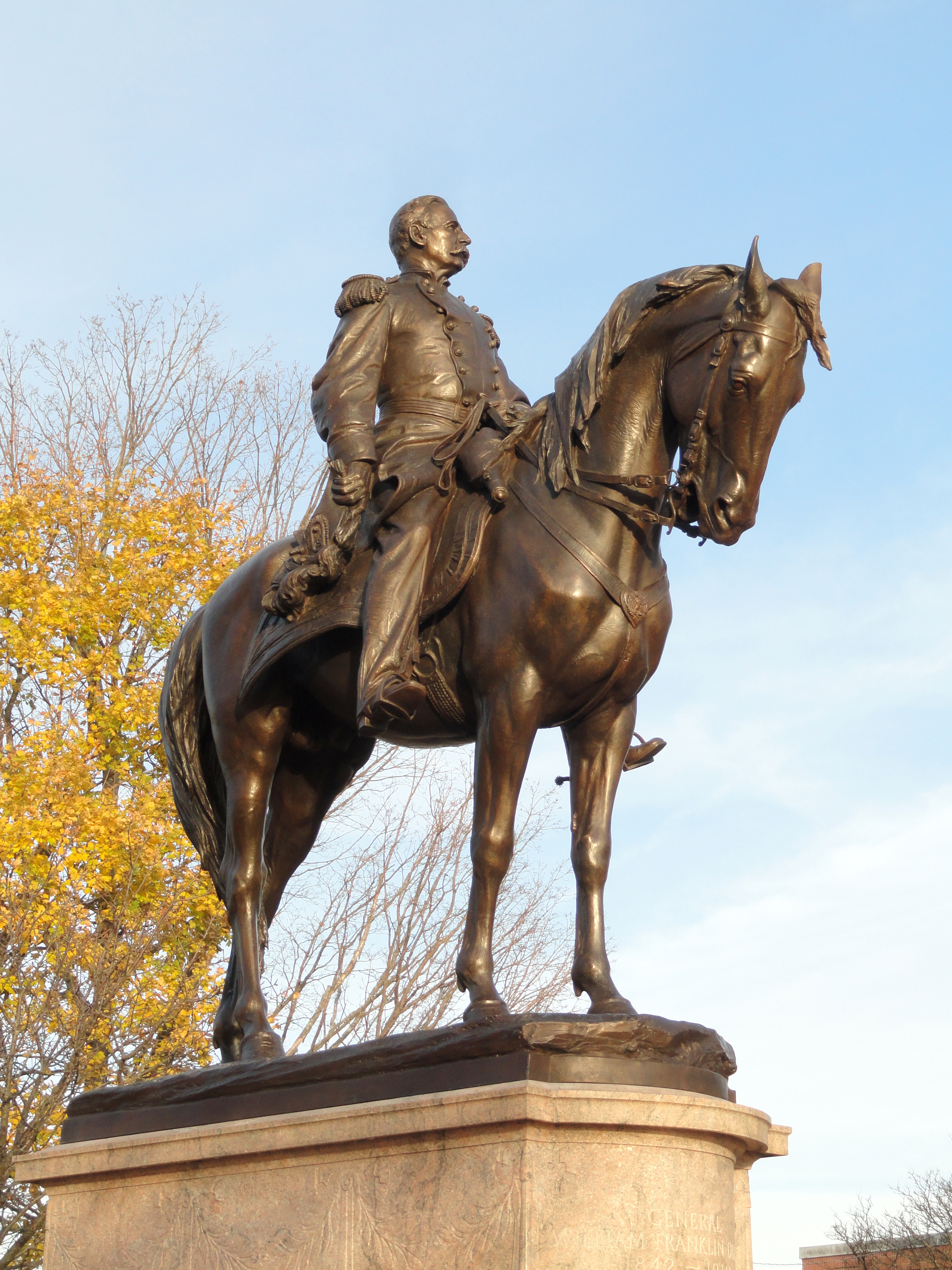 William Franklin Draper by sculptor Daniel Chester French (April 20, 1850 – October 7, 1931), Milford, Massachusetts. This artwork is in the public domain because the artist died more than 70 years ago.